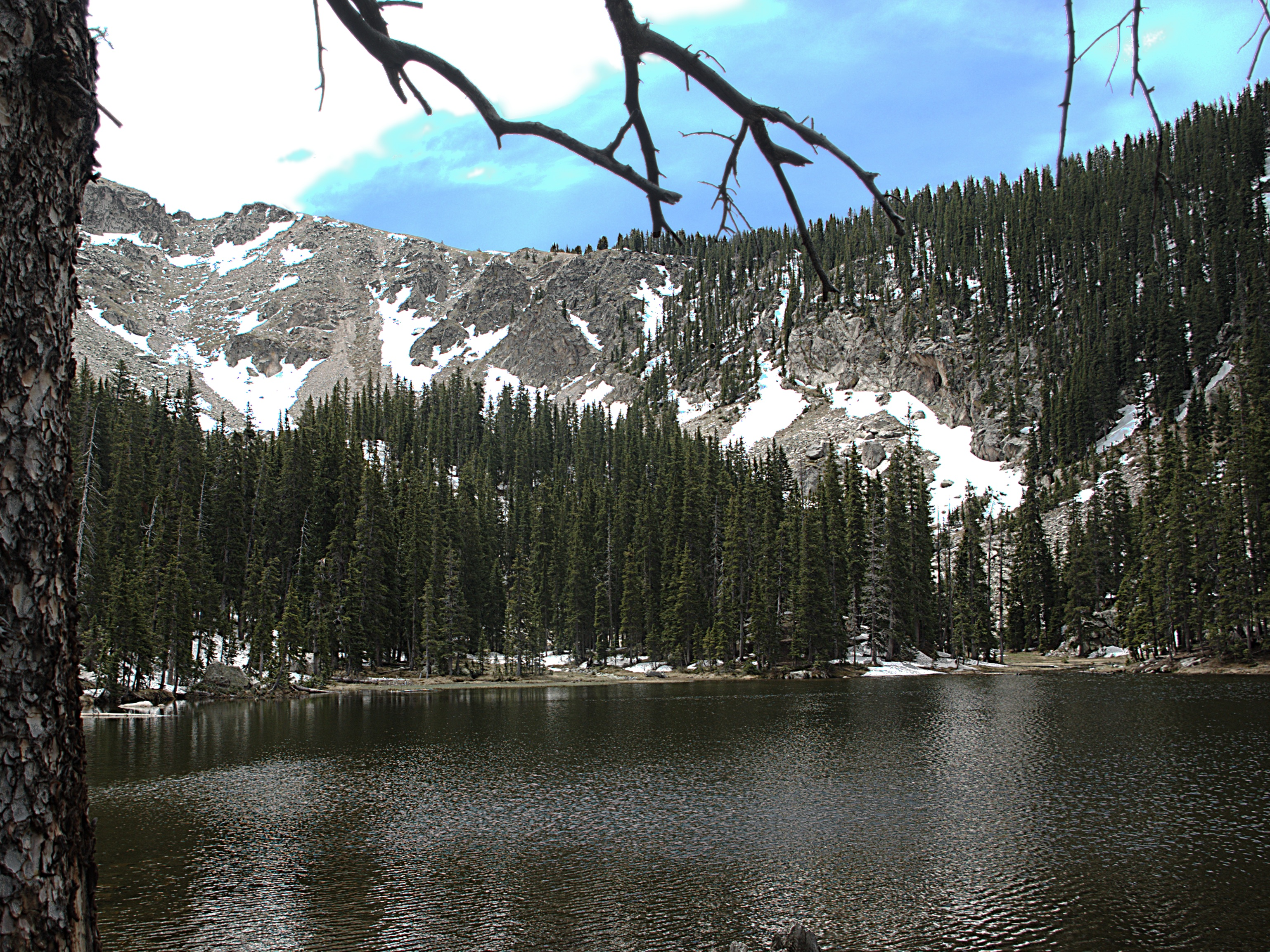 Nambé Lake, in the Pecos Wilderness area — Santa Fe County, northern New Mexico. Wilderness area is primarily within the Santa Fe National Forest, and also Carson National Forest. Over-enhanced to illustrate article on cliché.